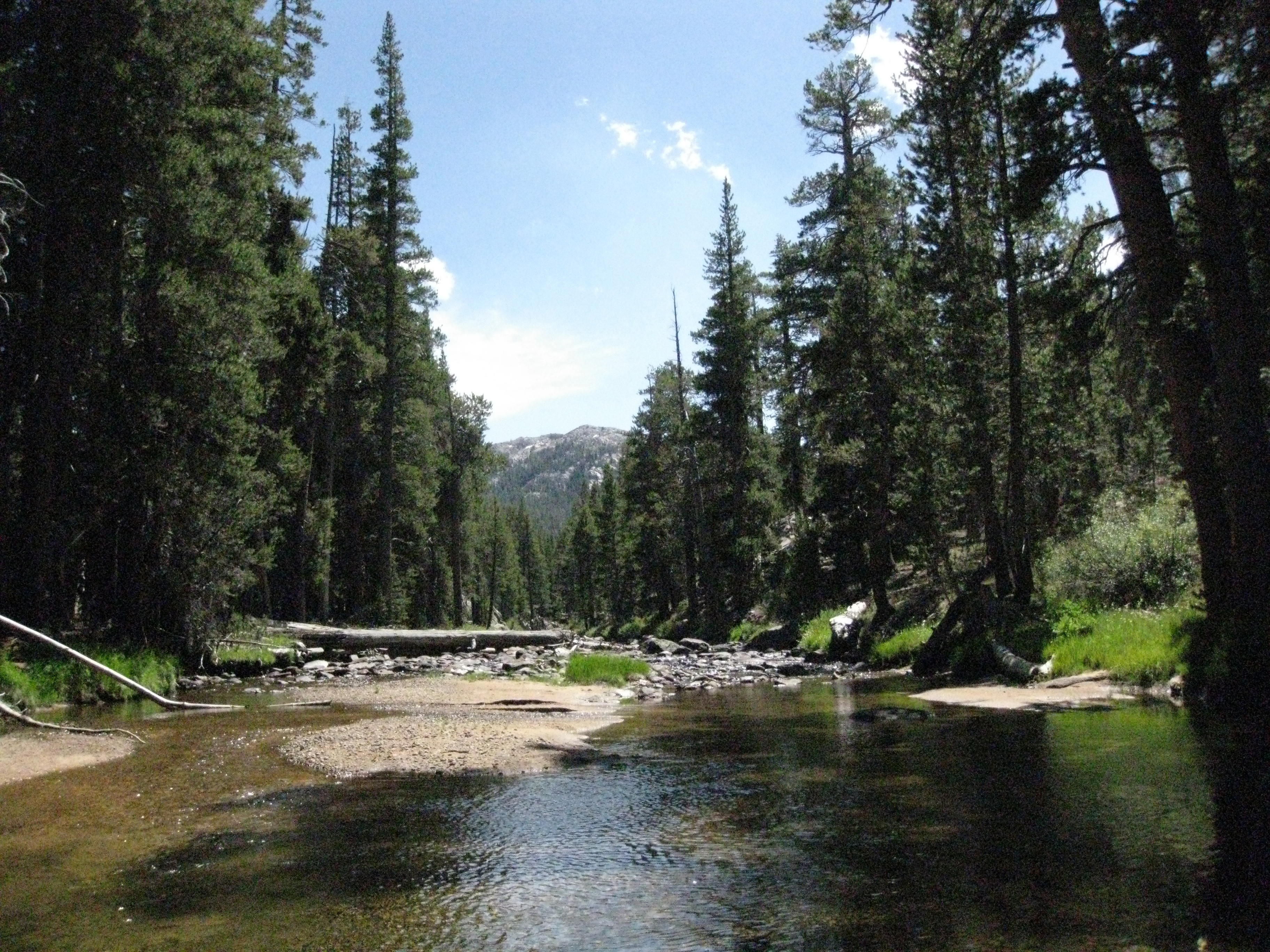 West Walker River, on the way out from Emigrant Wilderness to Leavitt Meadows. At about 7600ft in the Humboldt-Toiyabe National Forest, Mono County California.